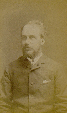 Portrait photograph of Louis-Léopold Van der Swaelmen, taken in 1887 by André Neu